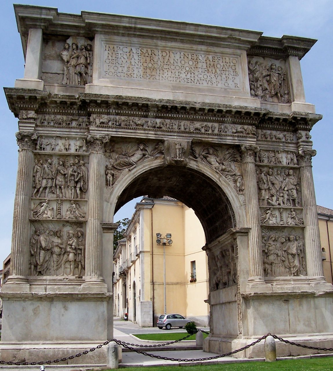 One of the most impressive structures I've ever seen - dates back to the days when Benevento was a very important trading point for the ancient romans. The inscription is catalogued as CIL IX 1558.Arch of Trajan - Benevento